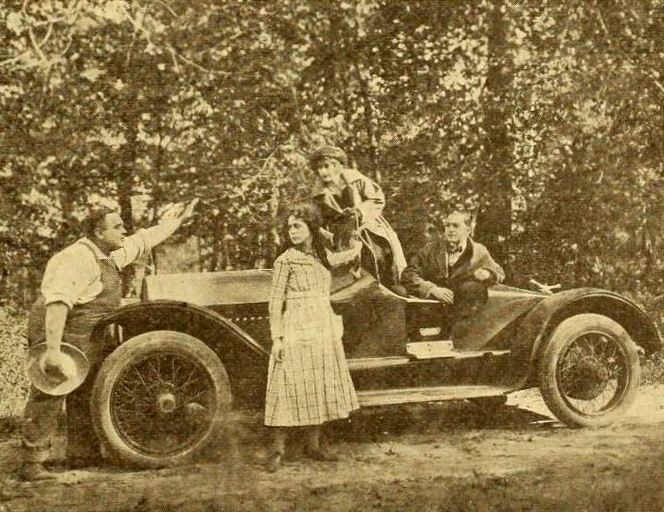 Still from Chapter 6, The Mystic Box, of the American film serial The Lightning Raider (1919) with Pearl White and unidentified actors, on page 883 of the February 15, 1919 Moving Picture World.